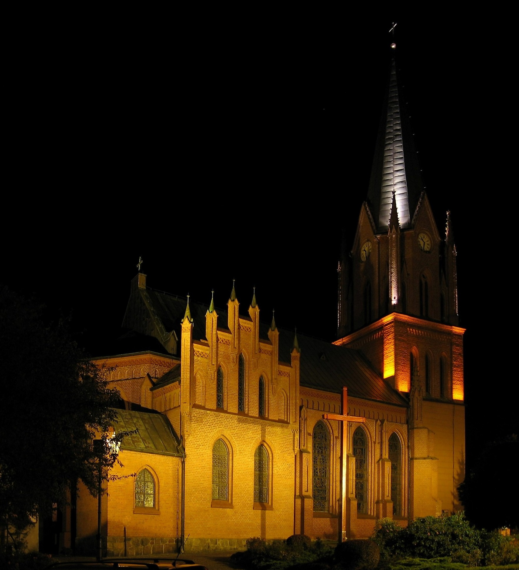 Church of the Immaculate Conception in Połczyn-Zdrój, Poland